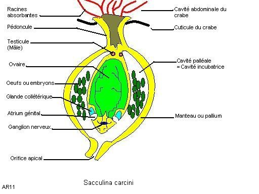 Diagrammatic section of Sacculina carcini.